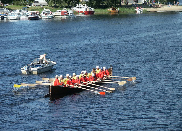 Finnish Church Boat Rowing Team has completed its practice run and is ready to face the challenge of Sulkavan Suursoudut, the biggest single rowing competition in the world. Sulkava, Finland in 2002.